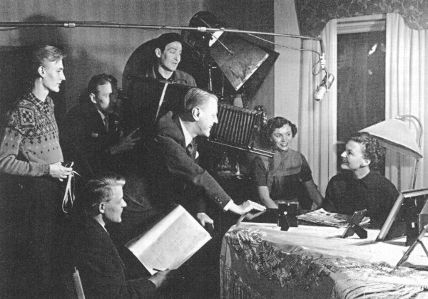 Valenti Vaala directs actresses Anja Räsänen and Rauha Rentola for the film "Huhtikuu tulee". Behind the camera Eino Heino, B-cameraman Erkki Imberg and Veikko Äikäs with screenplay in his hands.